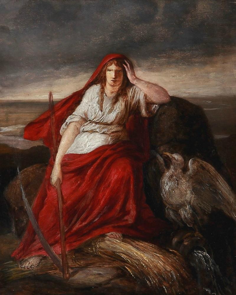 Mother Poland (preliminary study)